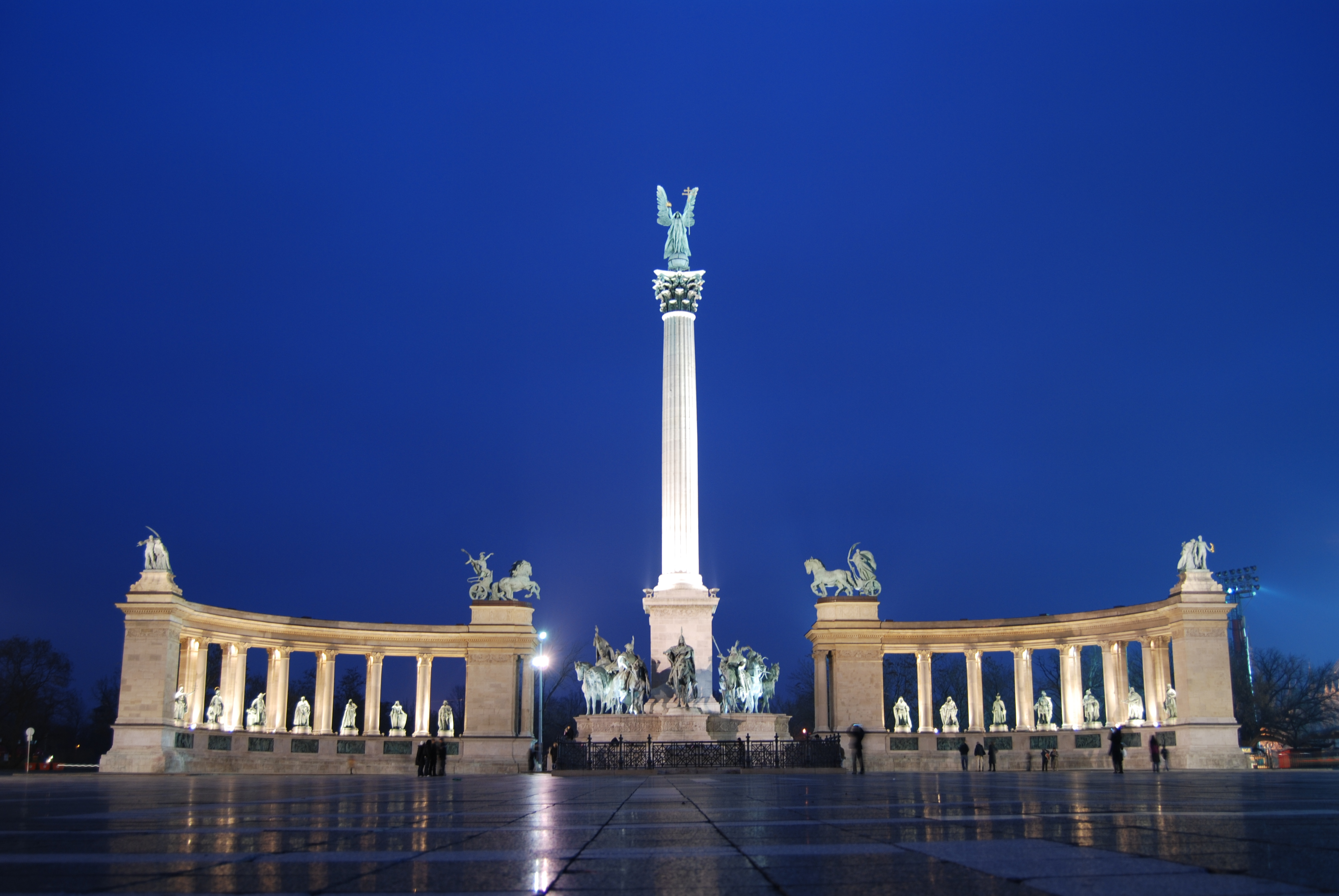 Hősök tere (meaning "Heroes' Square" in Hungarian) is one of the major squares of Budapest, Hungary. It lies at the end of Andrássy Avenue (with which it comprises part of a World Heritage site), next to City Park.